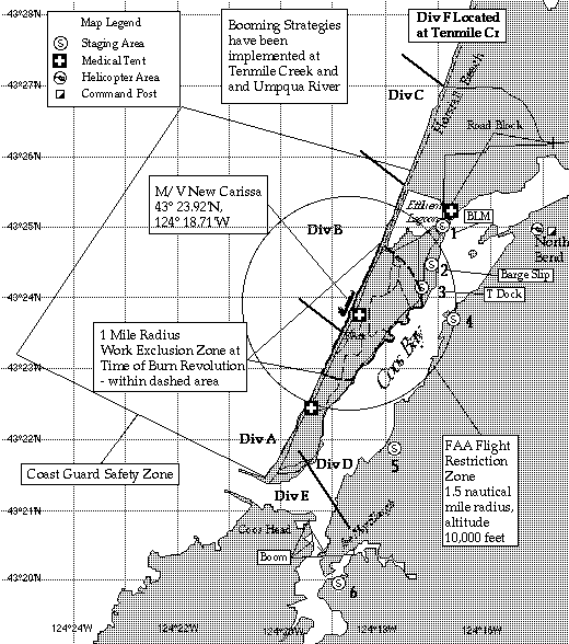 009. 990211 1800 Situation Map. Map of area of New Carissa wreck. This is a GIF version of :Image:NewCarissaMap.jpeg, which can now be deleted.